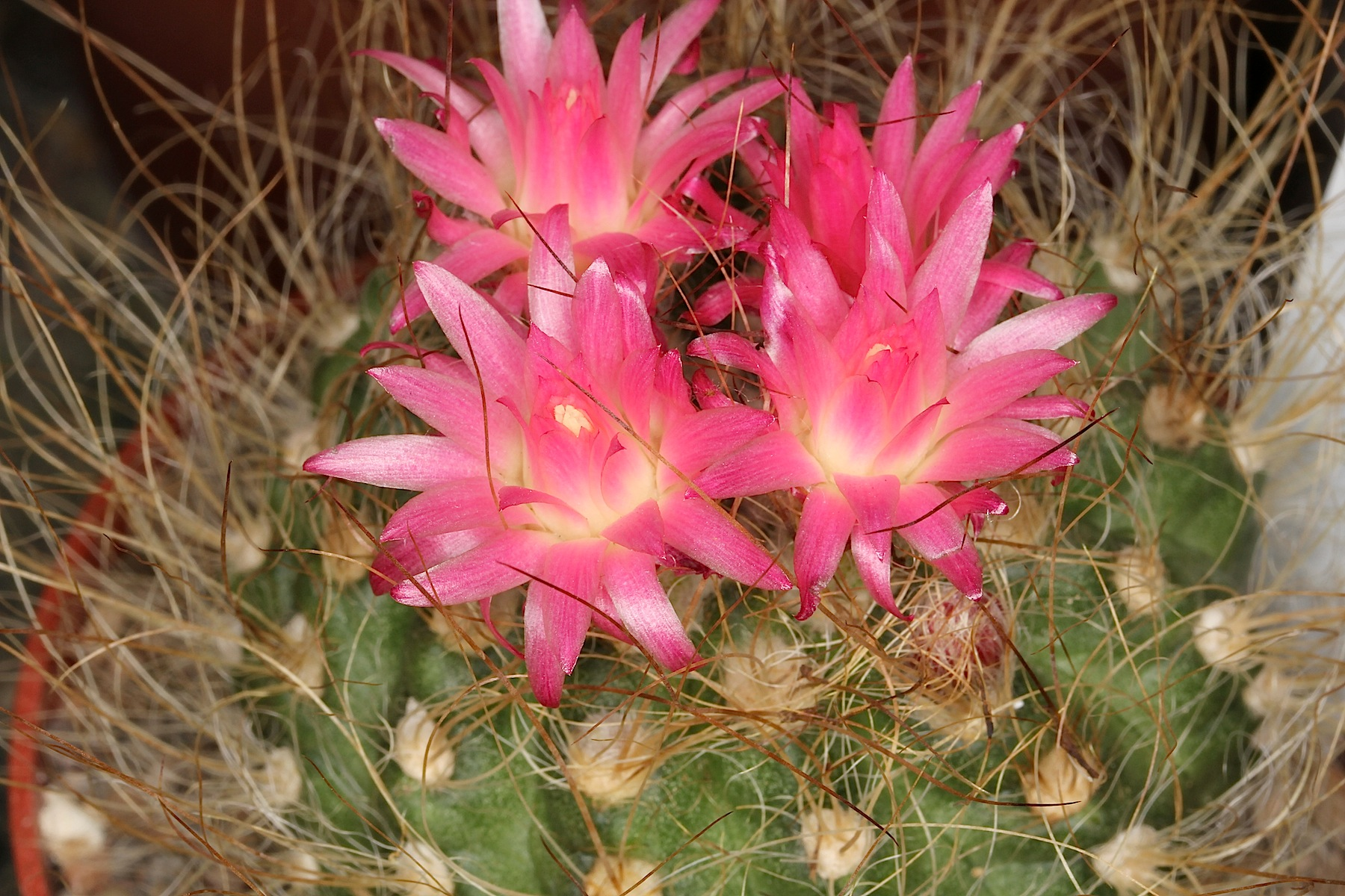 Eriosyce villosa